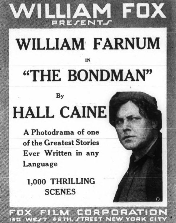 Advertisement for the American drama film The Bondman (1916) with William Farnum, on page 31 of the March 17, 1916 Variety.